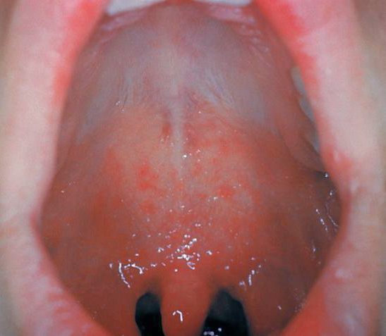 enanthem in measles, sarampo, sarampión, rugeoule